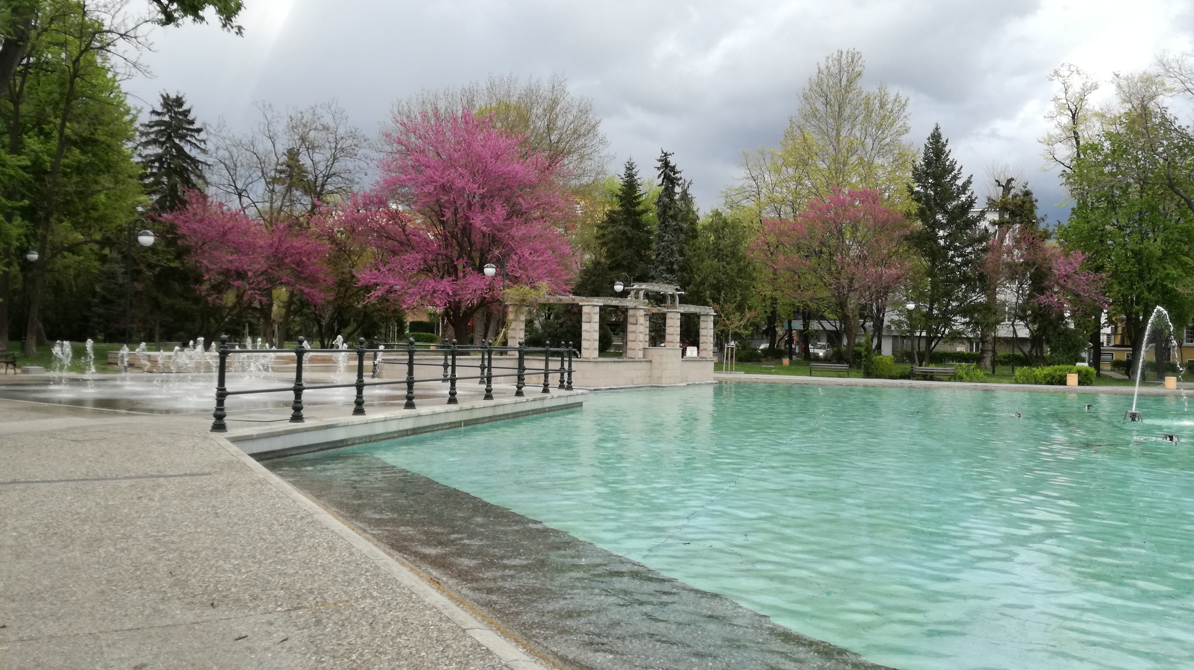 View of the "singing fountains" from the Tsar Simeon's garden in the city center of Plovdiv, Bulgaria (8 April 2017)